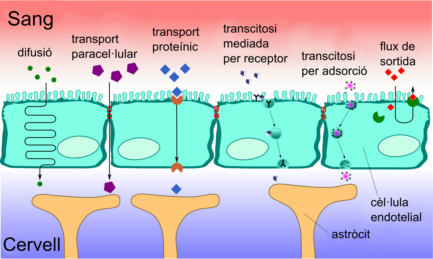 Esquema de les tipologies de transport a través de la barrera hematoencefèlica.